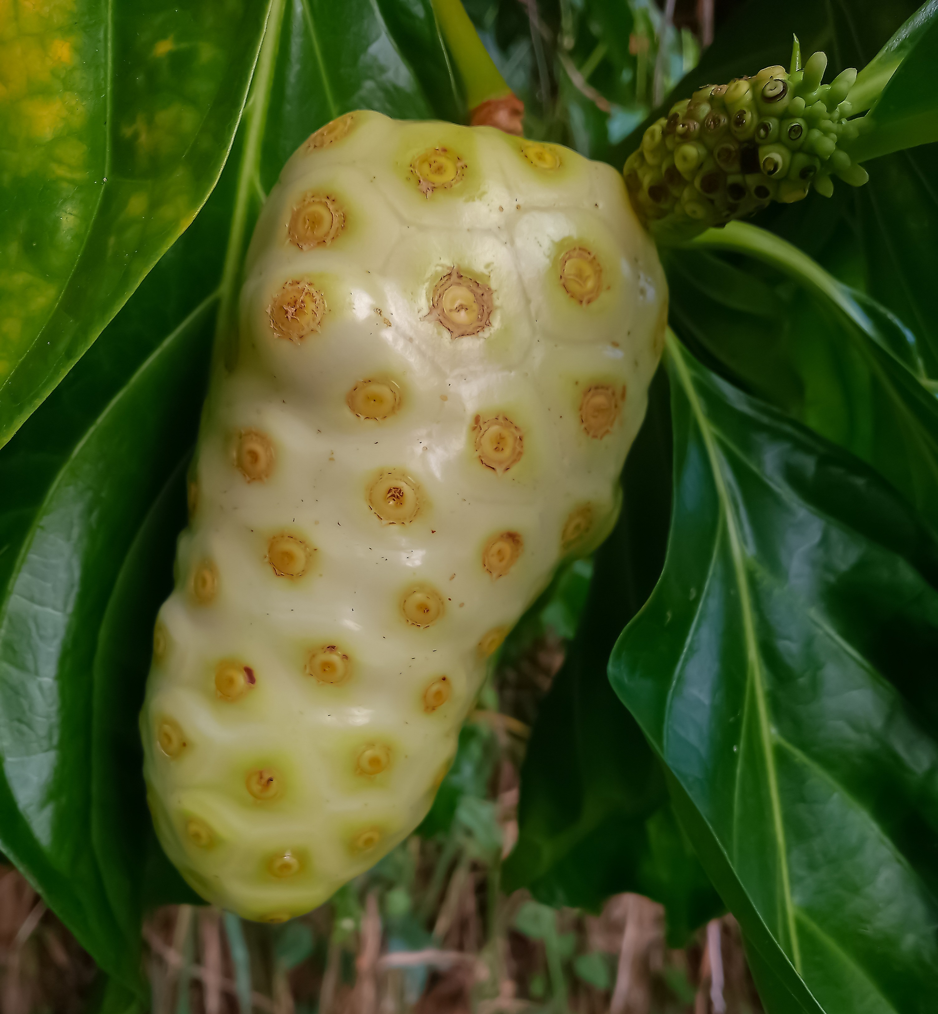 Morinda citrifolia